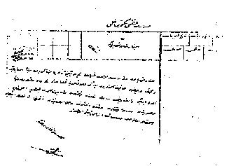 A photocopy by the telegram, written by the Ottoman authorities to the Turkish Embassy in Bulgaria, May, 9, 1903. It contains the following text: „We inform you, that on April, 22 (May, 5), in the village of Banitsa one of the leaders of the Bulgarian Committees, with name Delchev, was killed“.